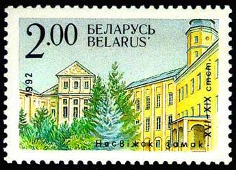 Stamp of Belarus